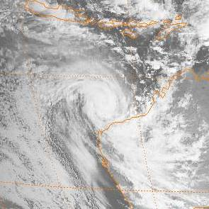 Severe Tropical Cyclone Ilona at peak intensity off the coast of Western Australia on December 17, 1988.